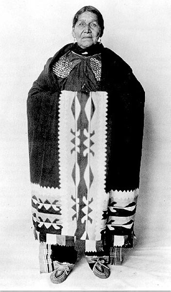 Susie Elkhair (d, Oct. 17, 1926-age 77) of the Delaware (Lenape) Tribe of Indians — after tribal relocation based in Bartlesville, Oklahoma. Traditional female Native American clothing of the Lenape.